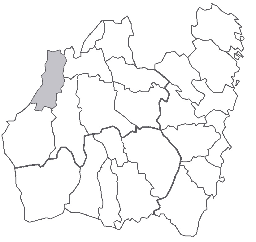 Map describing the location of Mo Hundred in the province of Småland, Sweden.